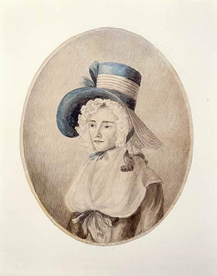 Elizabeth Simcoe (1762–1850) Alternative namesElizabeth Posthuma GwillimDescription Canadian artist and diarist wife of John Graves Simcoe, the first Lieutenant Governor of Upper Canada.Date of birth/death22 September 176217 January 1850Location of birth/deathWhitchurch, HerefordshireHoniton, DevonAuthority control GND: 118947699 WP-Person